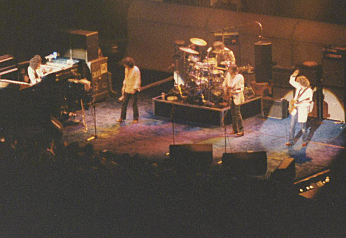 The Moody Blues between 1978-82